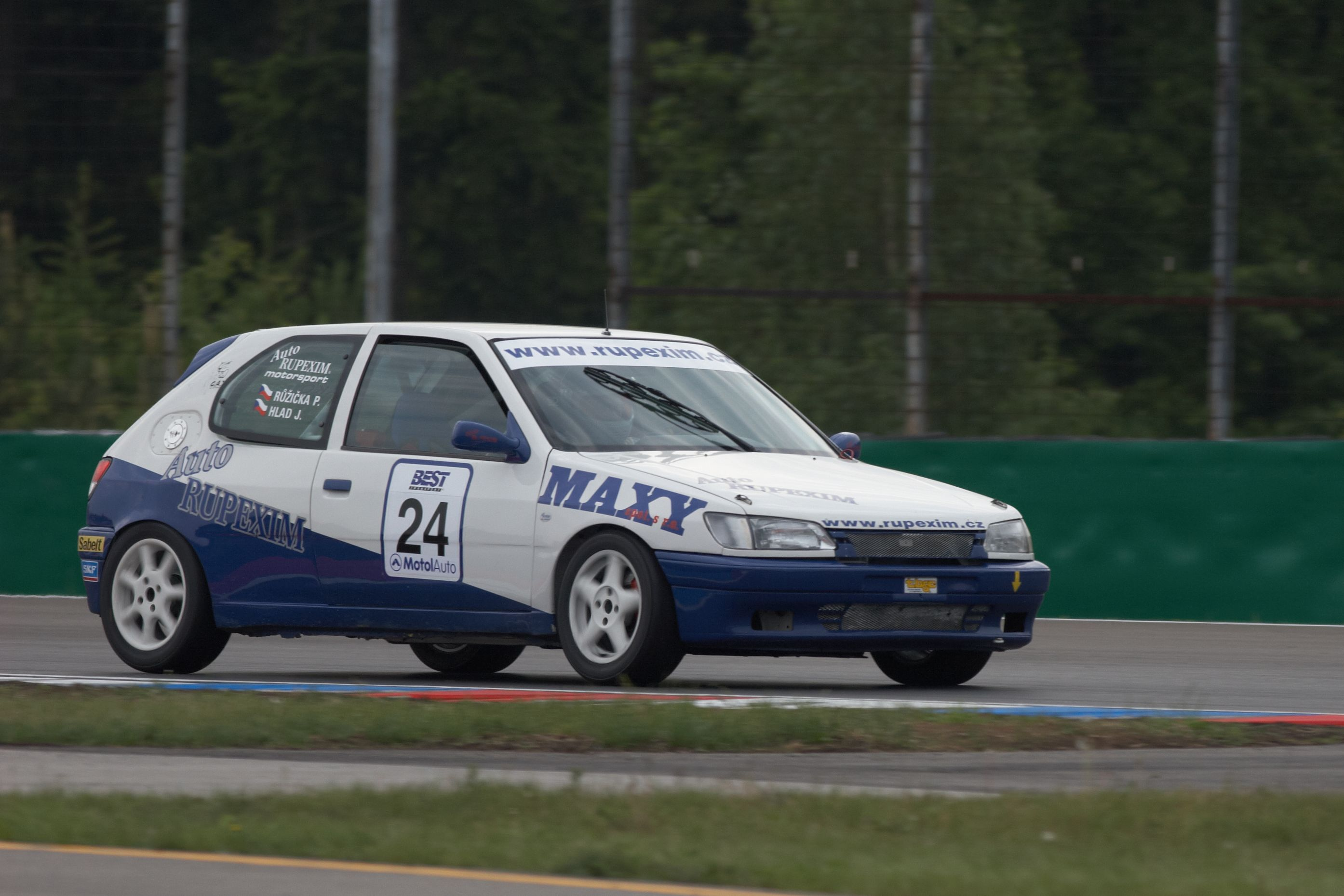 Peugeot 306 during 12h Le Brno race